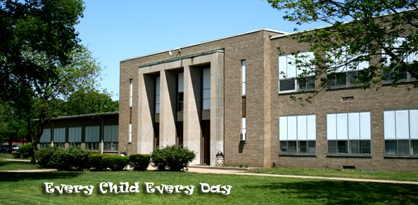 The front of Havana High School in spring with school motto bottom left: Every Child Every Day